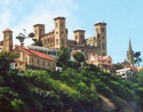 Photo of the Rova Manjakamiadana in Antananarivo 1999, showing fire damage.